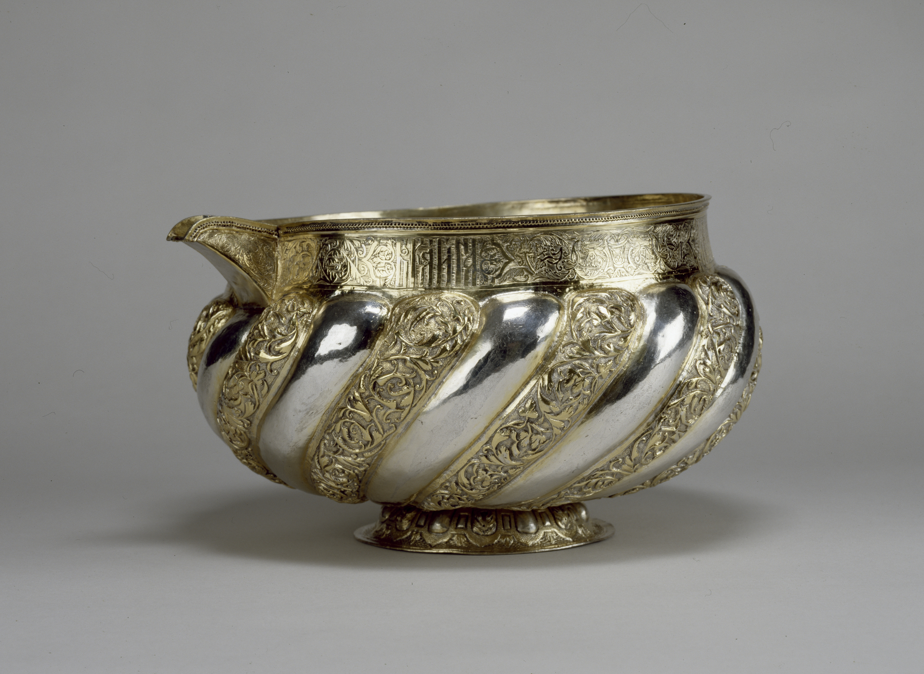 Jacob (Iakov) Anikievich Stroganov (1528-1577), to whom this vessel belonged, was a notable member of the Stroganov family which had large estates in the northeast Russian towns of Solvychegodsk and Perm. Jacob and his brother Gregory were the initiators of the Russian colonization of Siberia. The two visited Moscow in 1574, and it is possibly then that the present piece was made. Named "bratina" in the inscription along its rim, it is the earliest dated example of a large drinking bowl that subsequently became known as "endova". Such vessels were used in wealthy households for pouring out mead, beer, or wine during feasts. The bowl with its alterating plain and foliate gadroons (ornamental bands) is an exceptionally rich example of the baroque style, which is characterized by elaborate decoration.